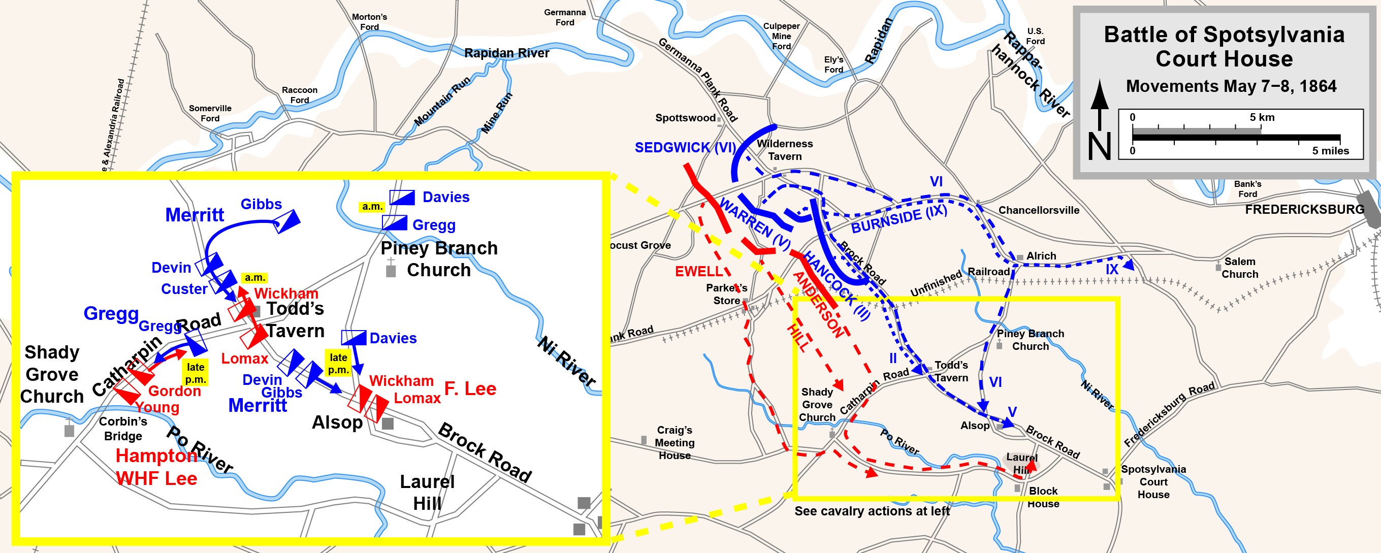 One of a series of seven maps depicting the Battle of Spotsylvania Court House of the American Civil War. Drawn by Hal Jespersen in Adobe Illustrator CS5. Graphic source file is available at Attribution: Map by Hal Jespersen